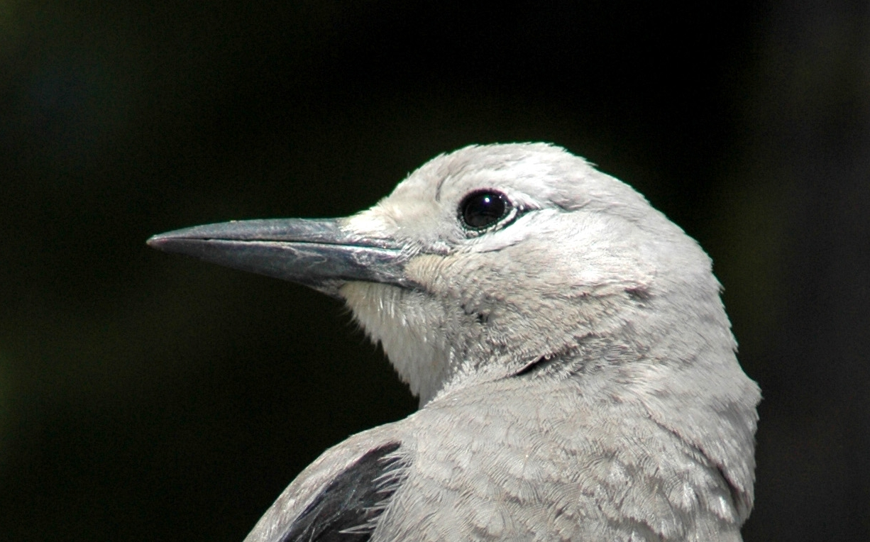 Clark's Nutcracker (Nucifraga columbiana) at Crater Lake, United States.